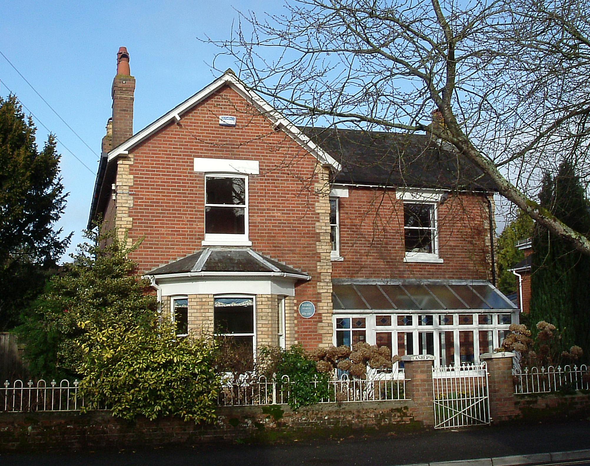 Thomas Hardy's house The famous author, Thomas Hardy, lived in this house in Avenue Road between 1881 and 1883.